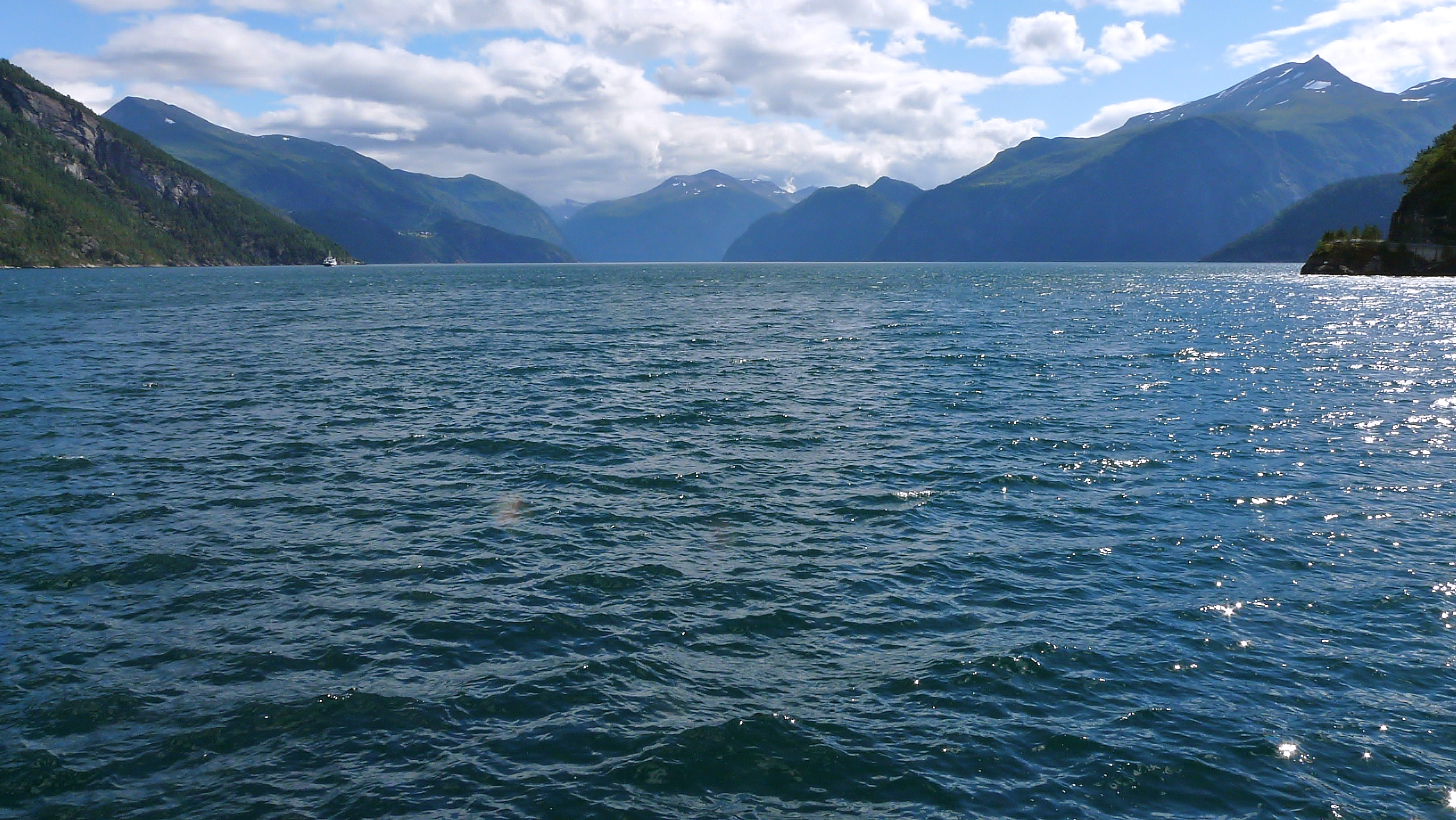 A view to Norddalsfjorden (Storfjorden) from a ferry dock in Stranda in 2008 August.